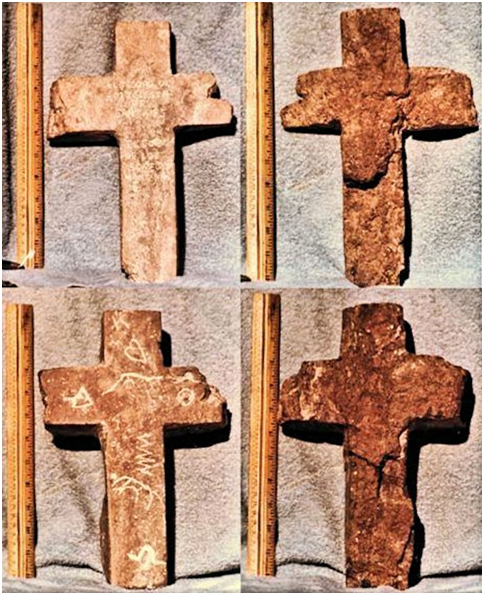 Front and back views of the Stone Crosses Courtesy of the Superstition Mountain Historical Society.